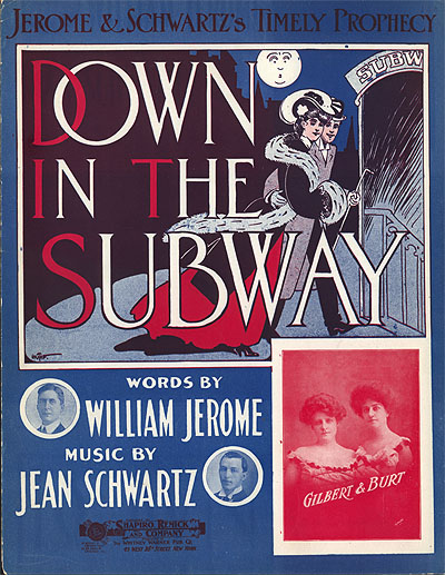 Sheet music cover for William Jerome and Jean Schwartz's "Down in the Subway"